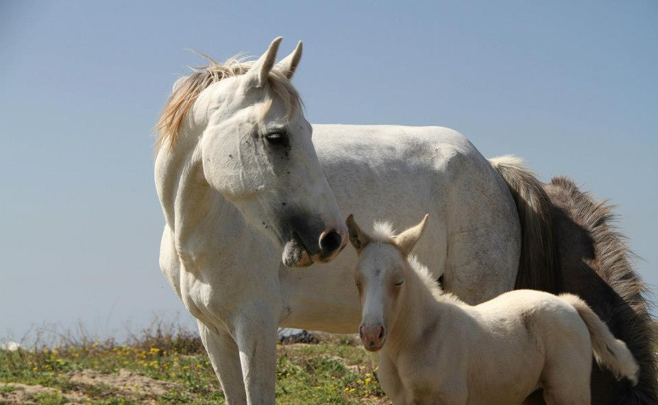 Cities in Israel